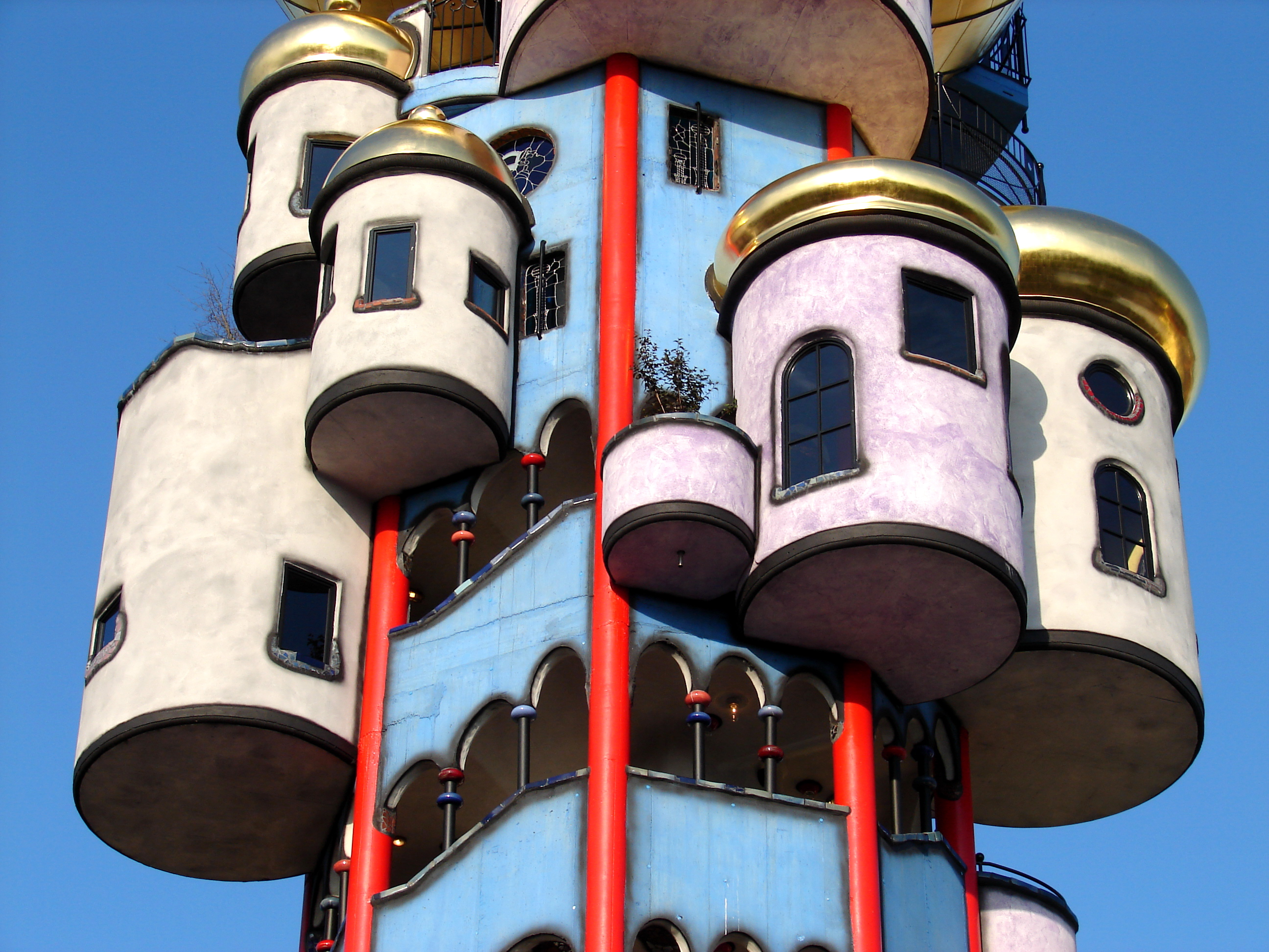 Abensberg Kuchlbauer — sculptural view tower in the Brauerei Kuchlbauer (beer garden) in Abensberg, Lower Bavaria, Germany. Designed by artist Friedensreich Hundertwasser, and built in 2010.